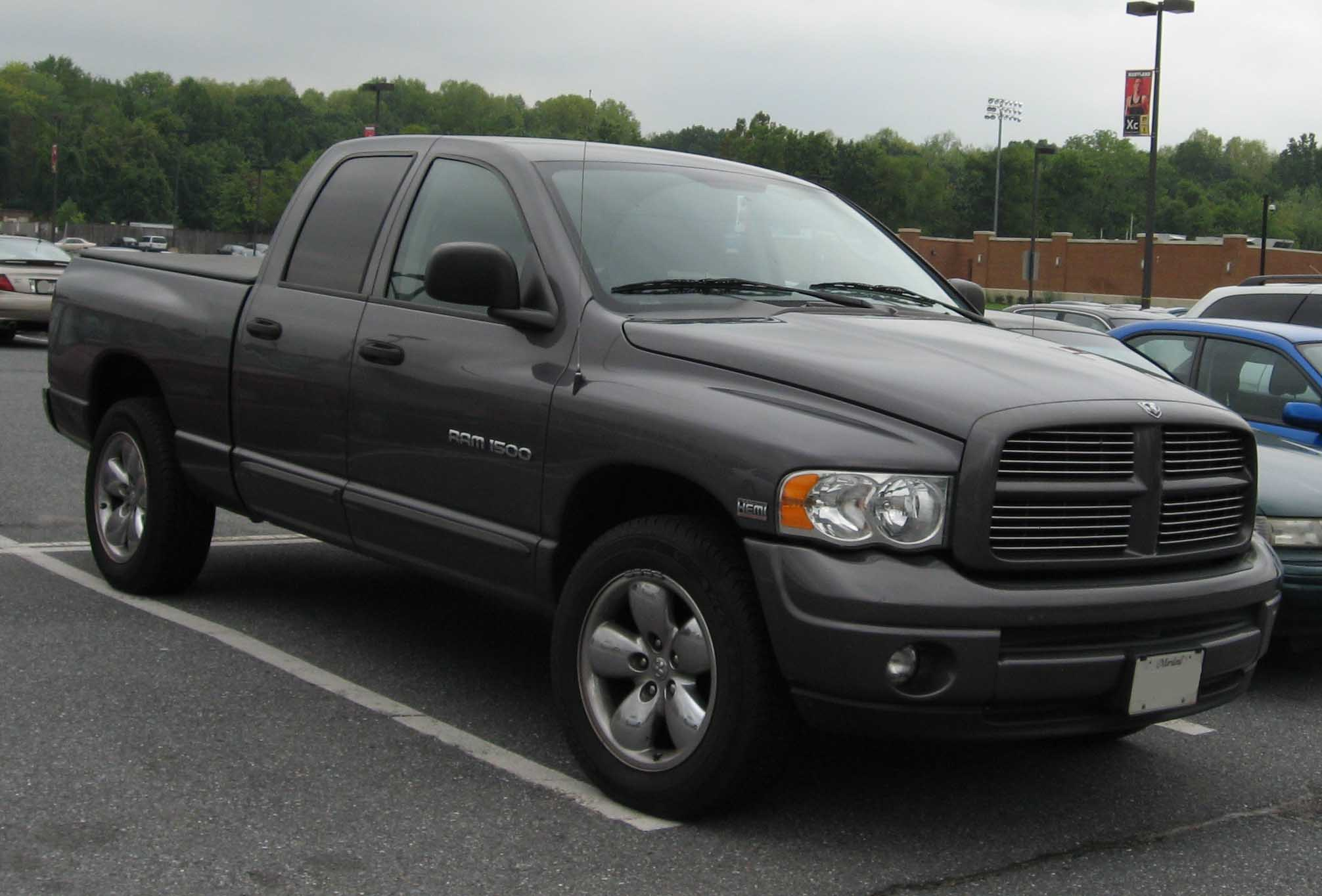 2002-2005 Dodge Ram photographed in USA.